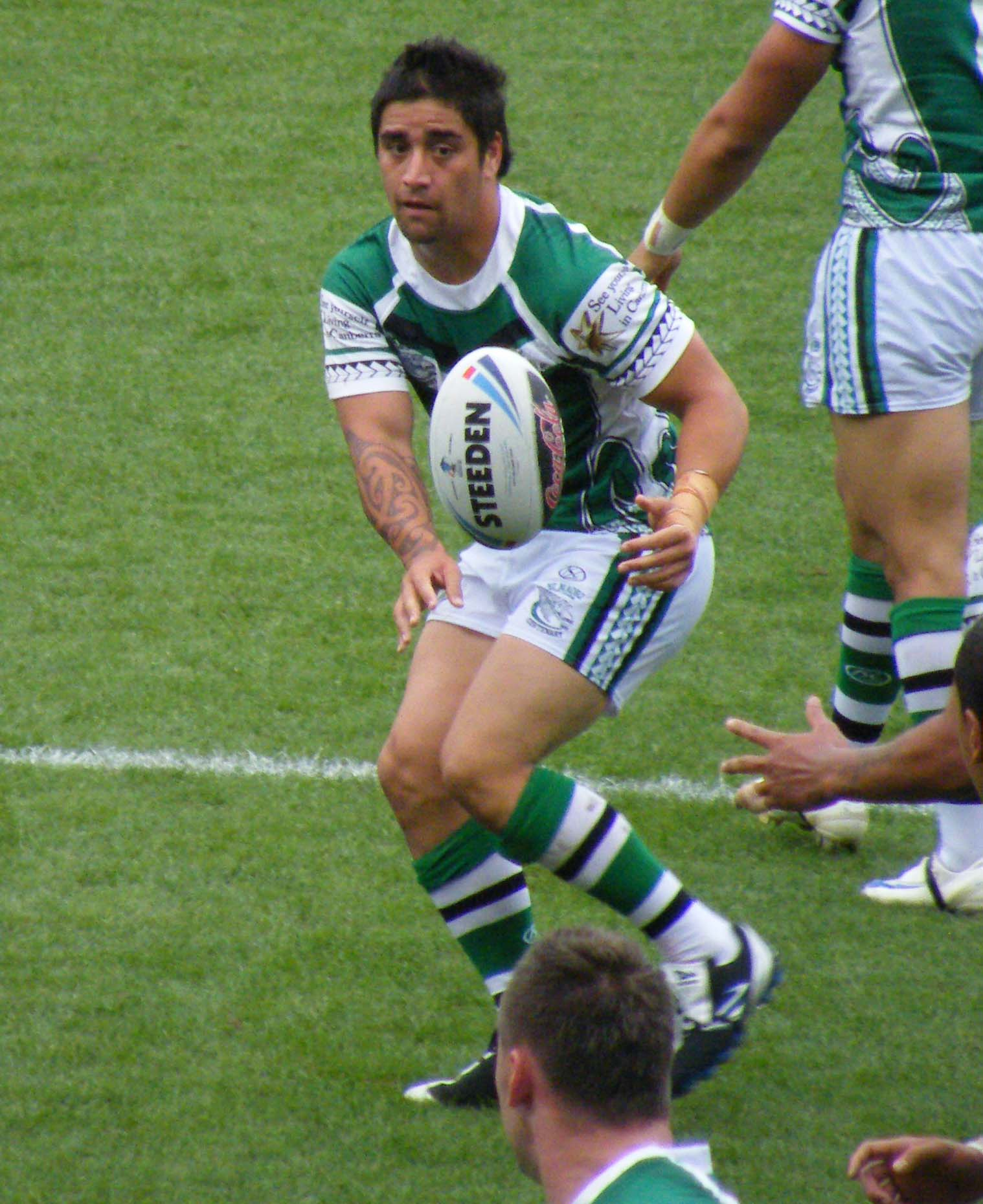 Maori half back Rangi Chase. RLWC 2008 Aboriginal dreamtime team versus New Zealand Maori.